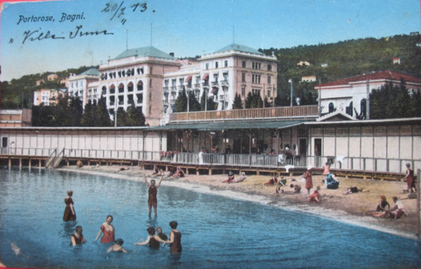 Postcard of Portorož.